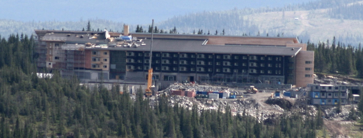 The hotel "Copperhill Mountain Lodge" in Åre (under construction)